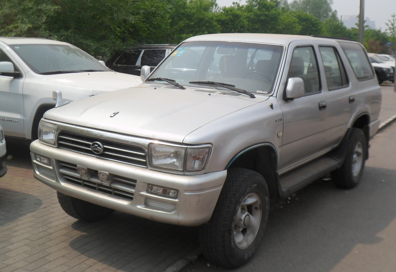 Great Wall Safe photographed at the Beijing Used Car Trade Market, Beijing, China.